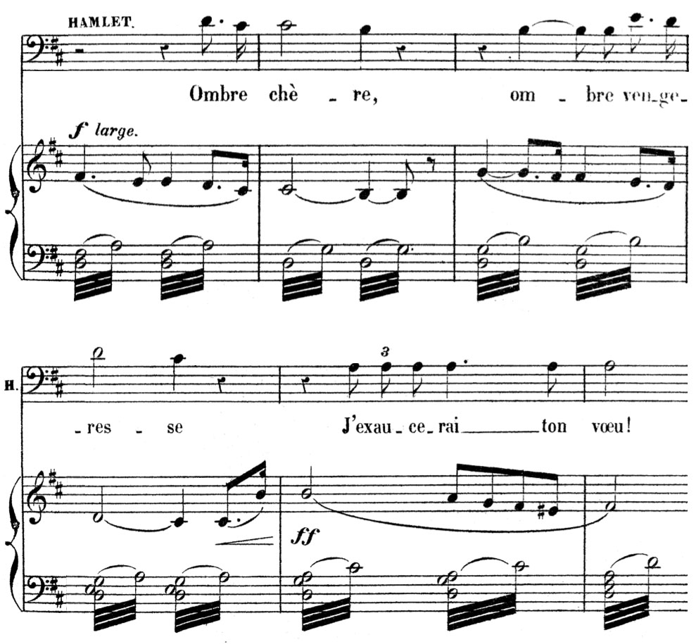 Musical score. Hamlet (opera) Act1 Scene 2 "Ombre chère" (extracted and edited from the piano-vocal score, p. 83)